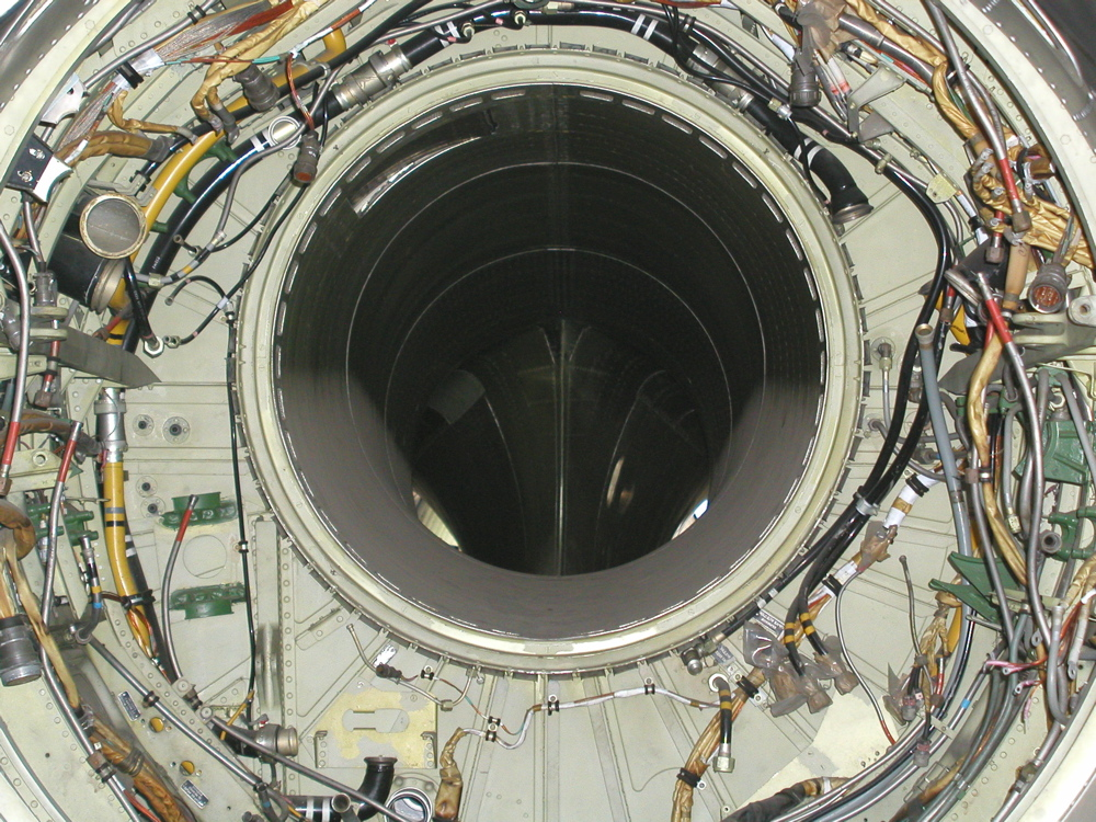 Air intake chanel in Su-22, engine removed. (Displayed at the Aviation Museum in Kosice, Slovakia)